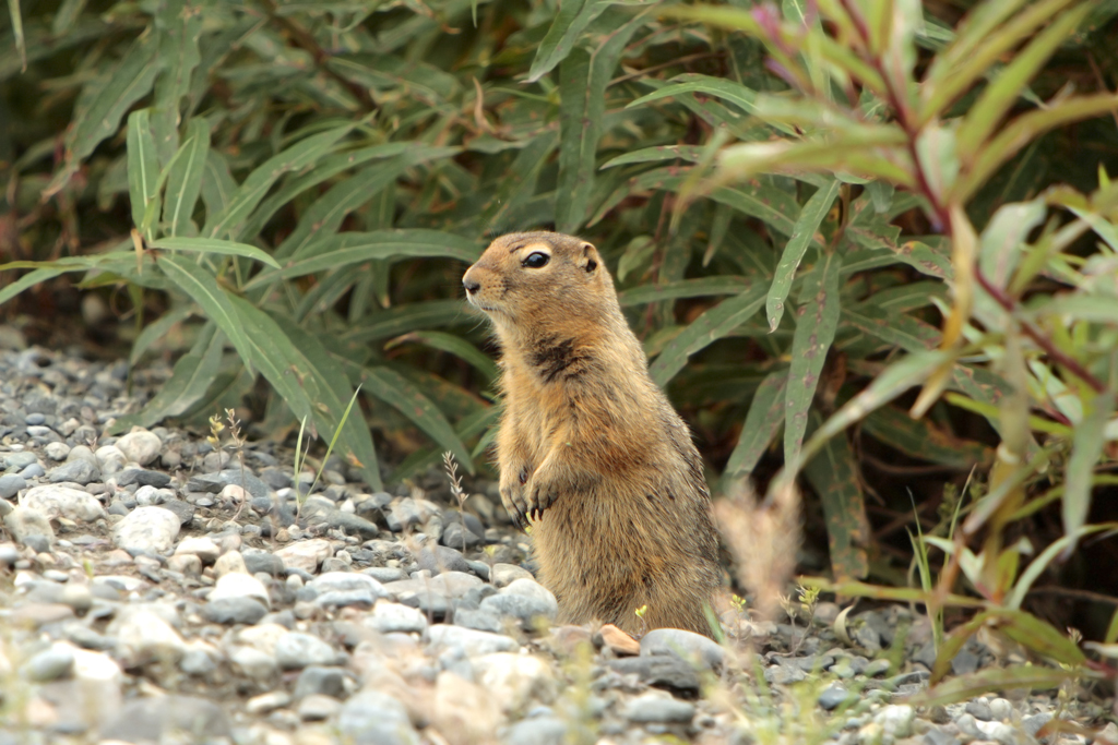 Arctic Ground Squirrel